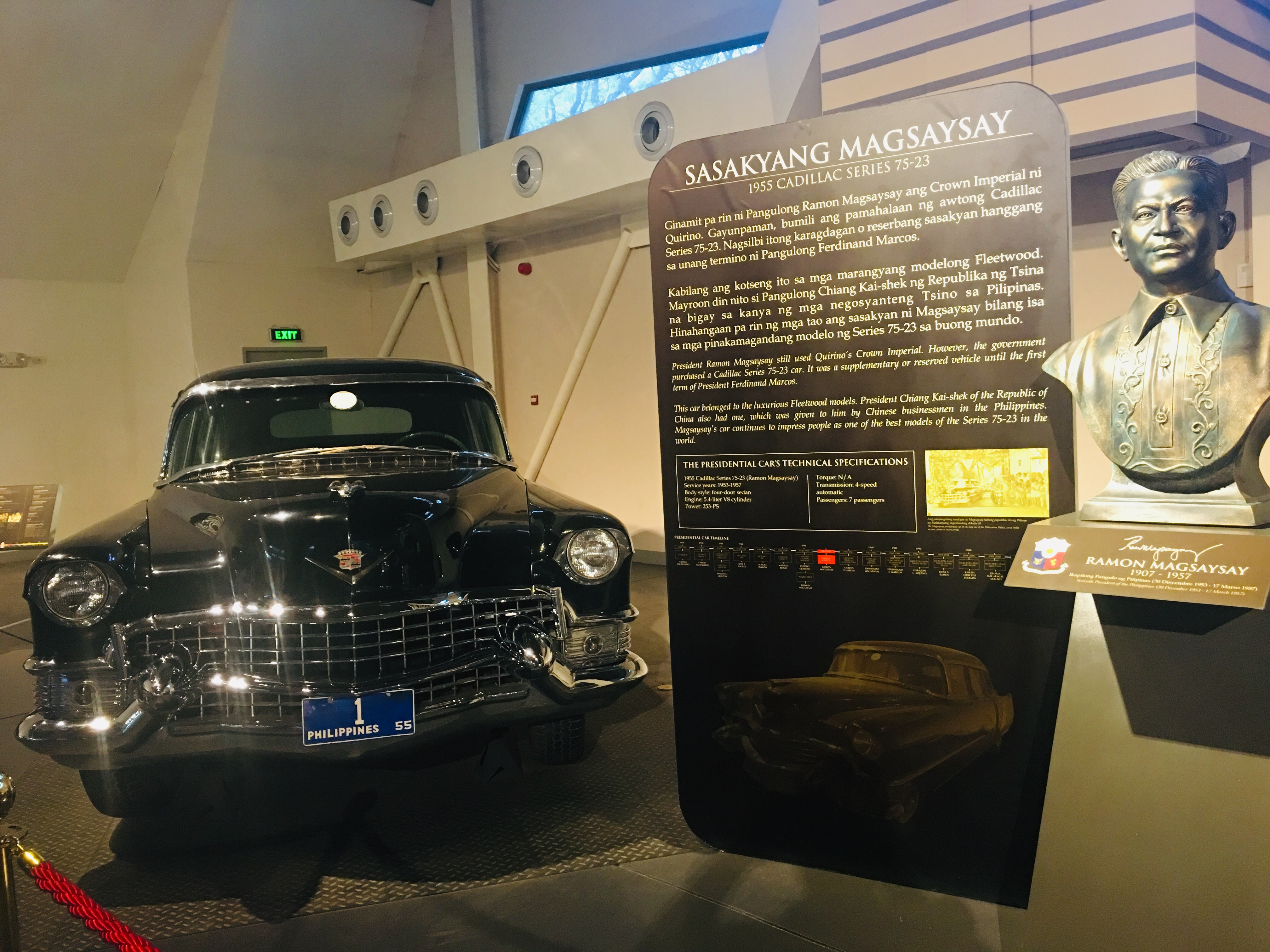 Presidential car of Ramon Magsaysay